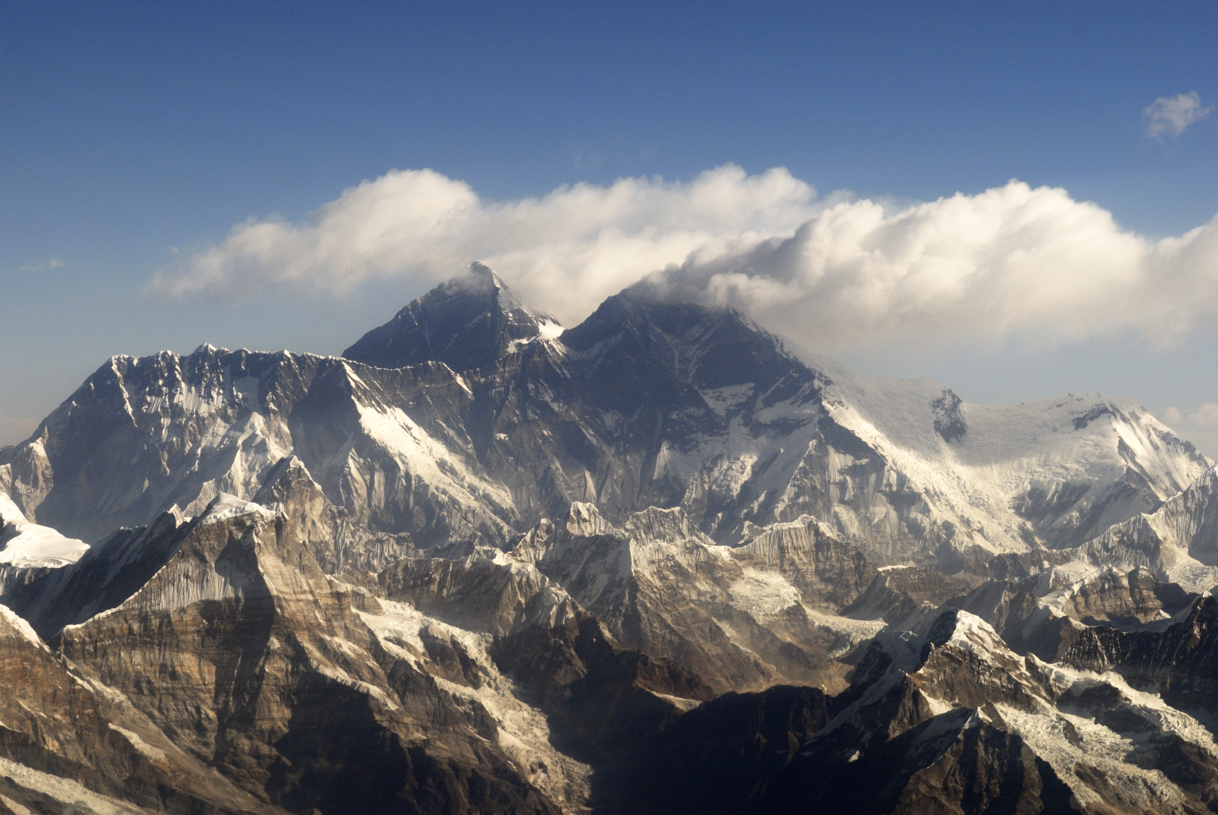 Mount Everest - 8848 m Lhotse - 8516 m Nuptse - 7855 m